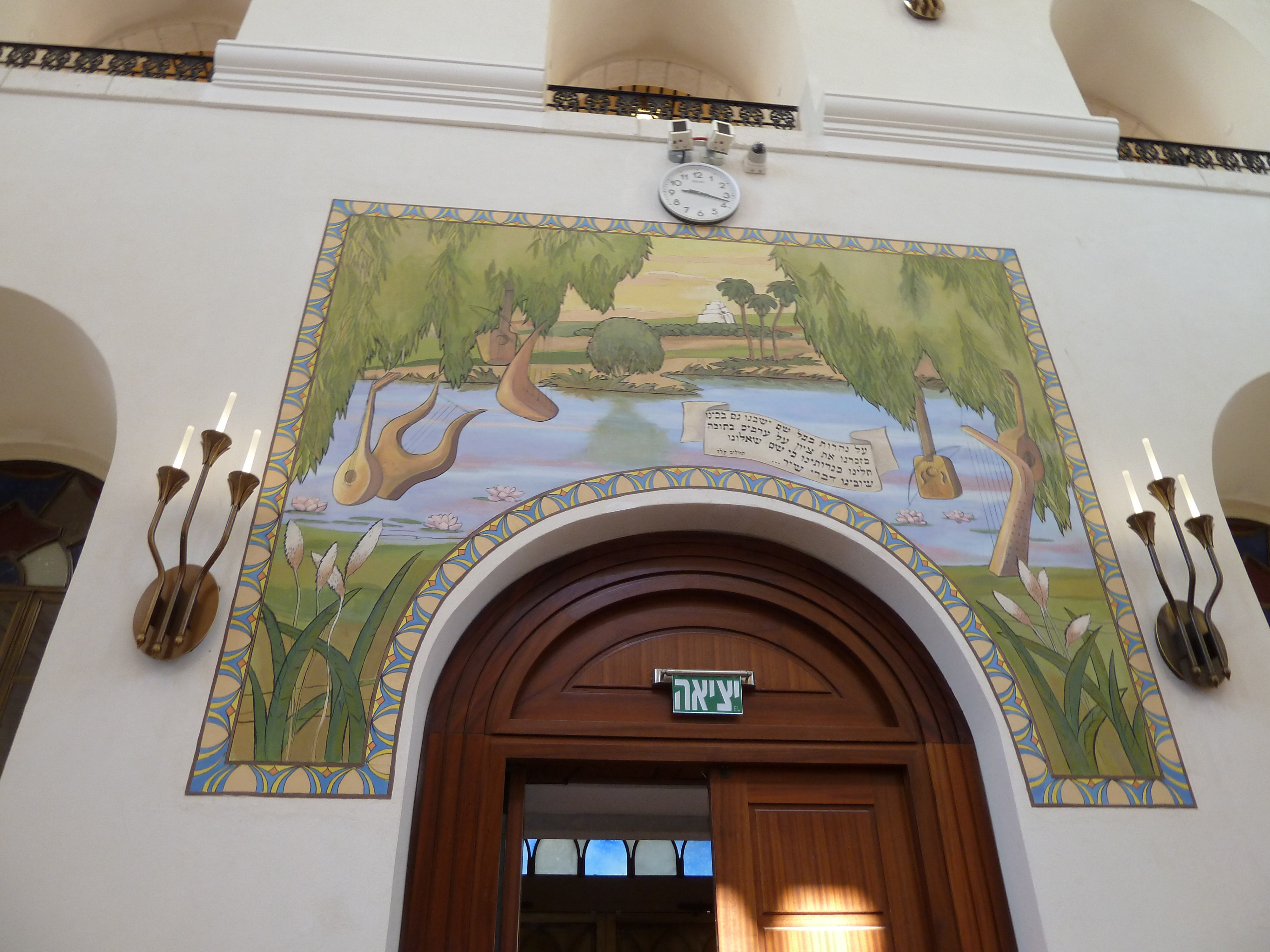 Hurva Synagogue interior, Jewish quarter, Old City Walls in Jerusalem